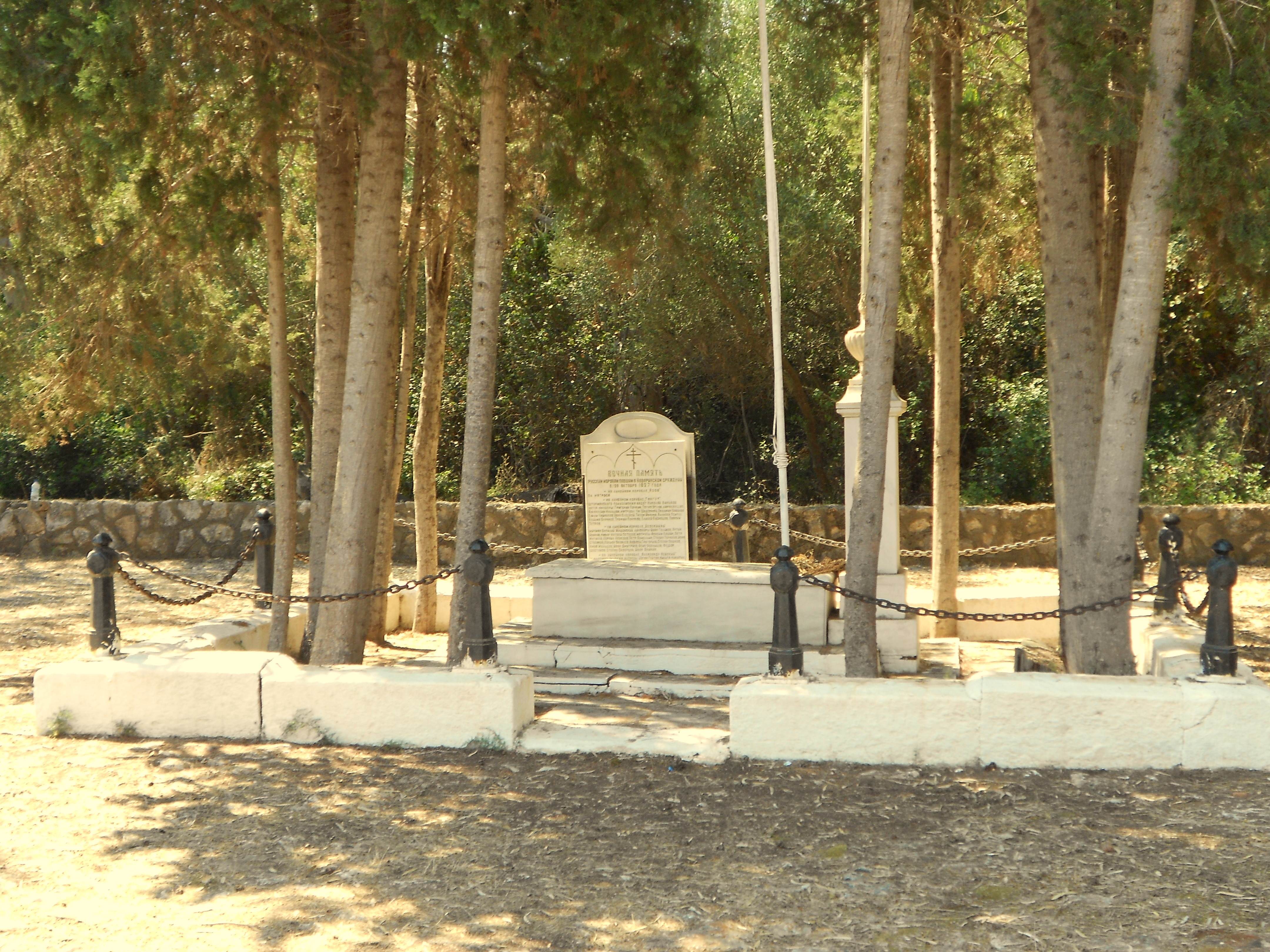 Russian Navy Monument in Sphacteria Island, Greece